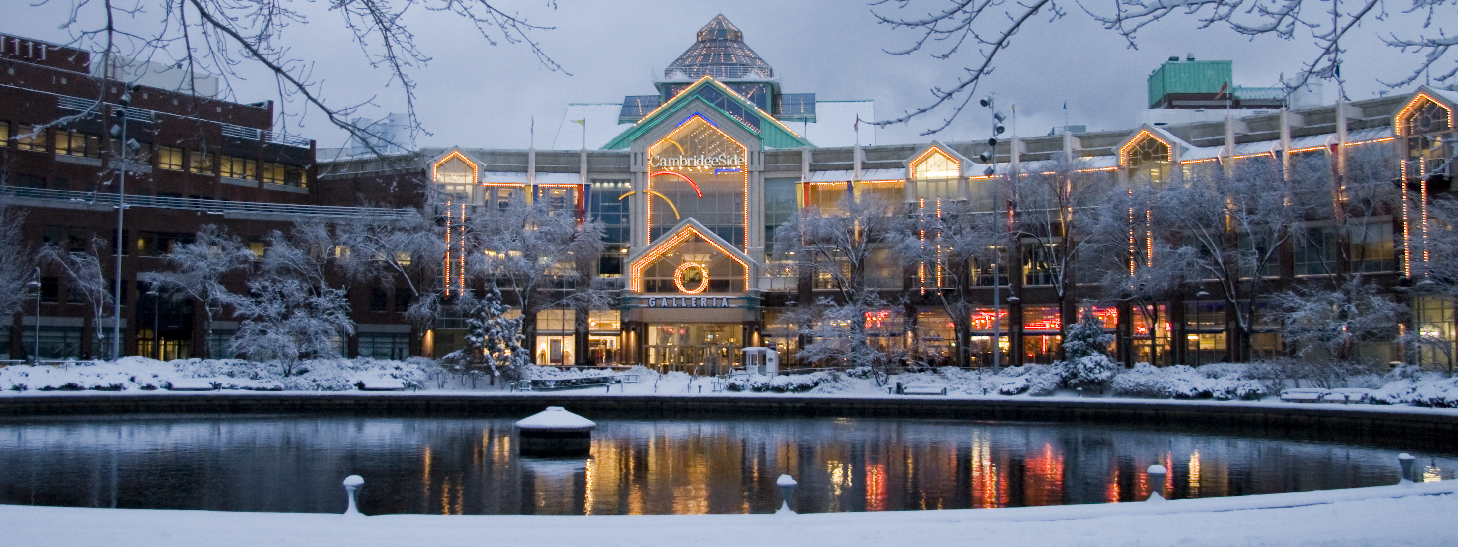 Cambridgeside Galleria from across the pond in winter